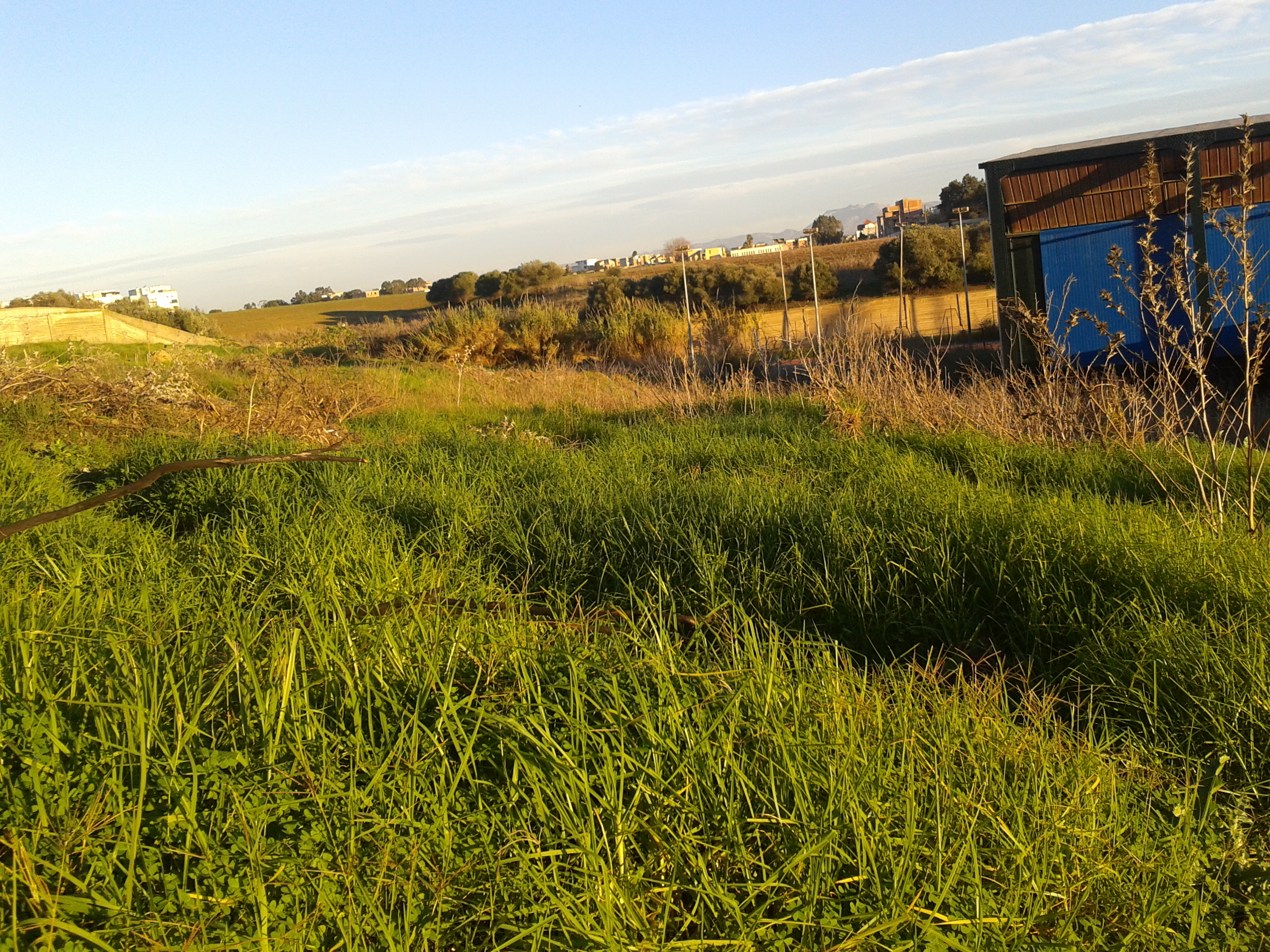 A very nice place in the campus of El Harrach